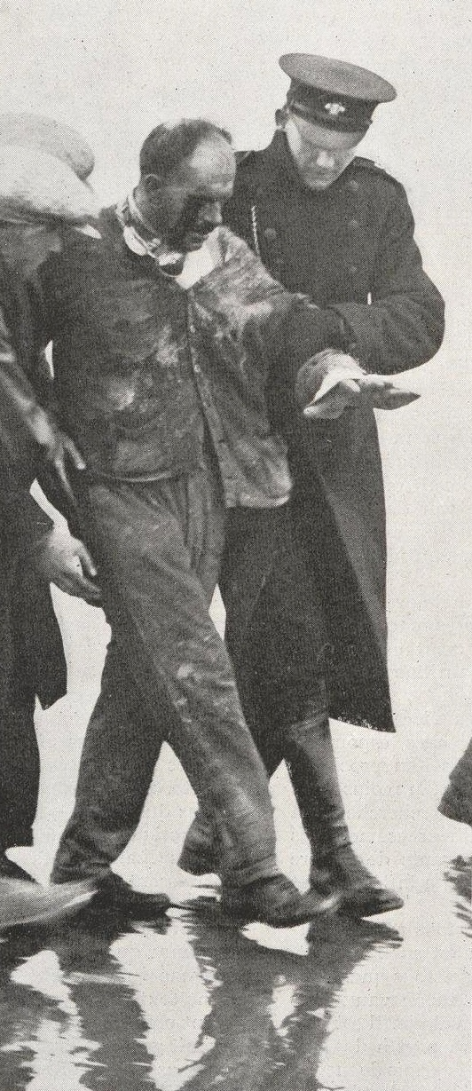 Giulio foresti after accident with Djelmo, November 26 1927